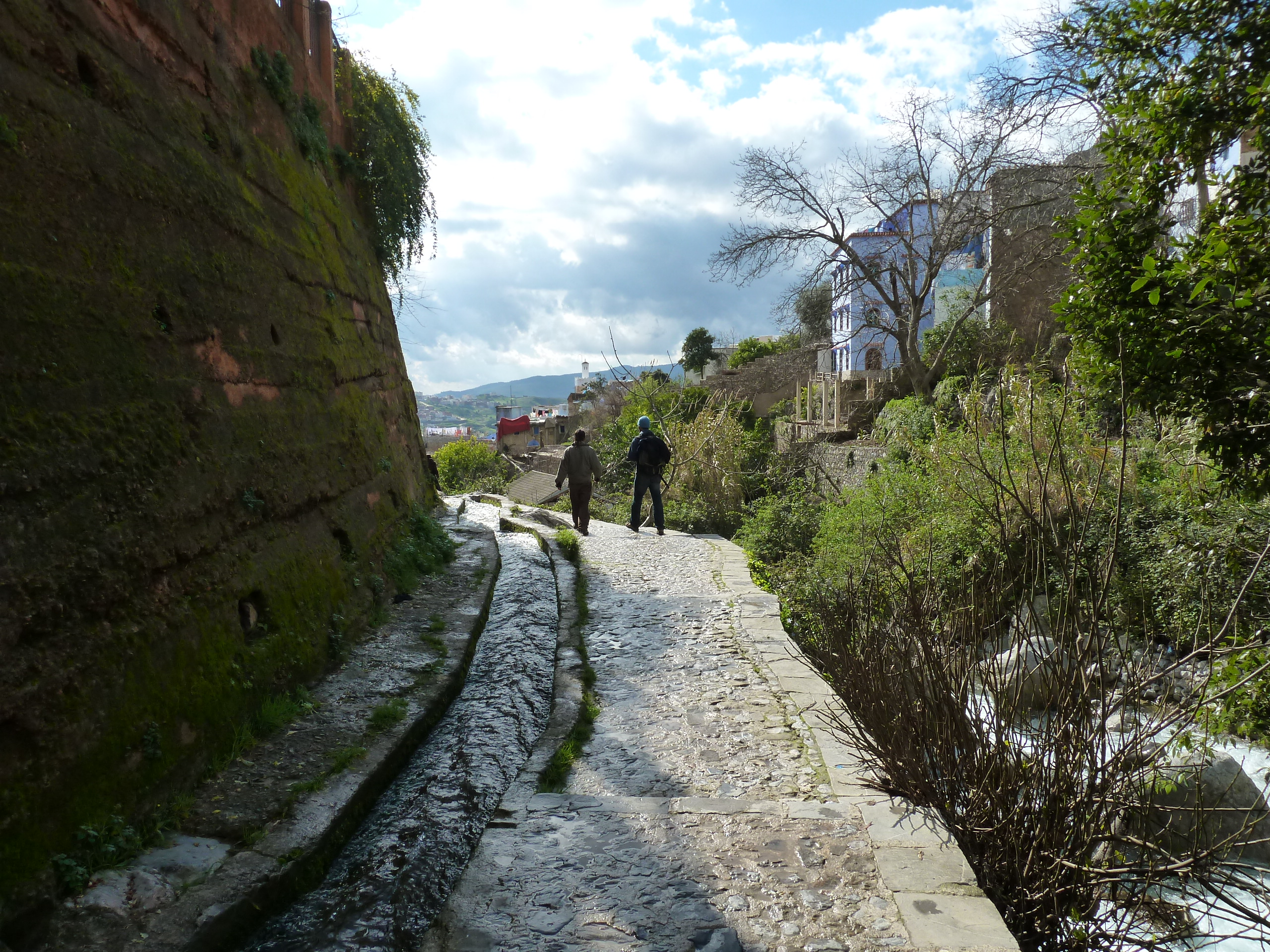 Chefchaouen, Morocco